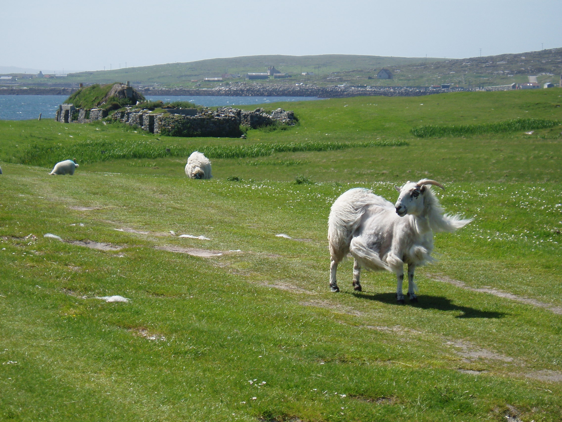 Sheep near the hostel on the Isle of Berneray, Outer Hebrides.